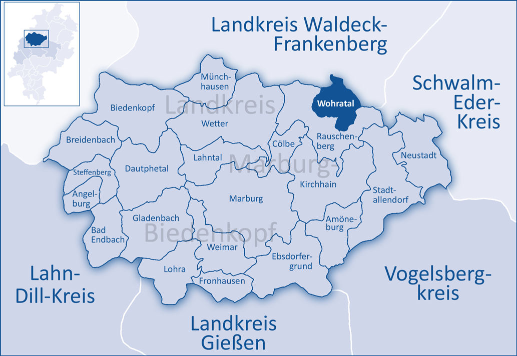 The map shows a district in the area of Marburg-Biedenkopf